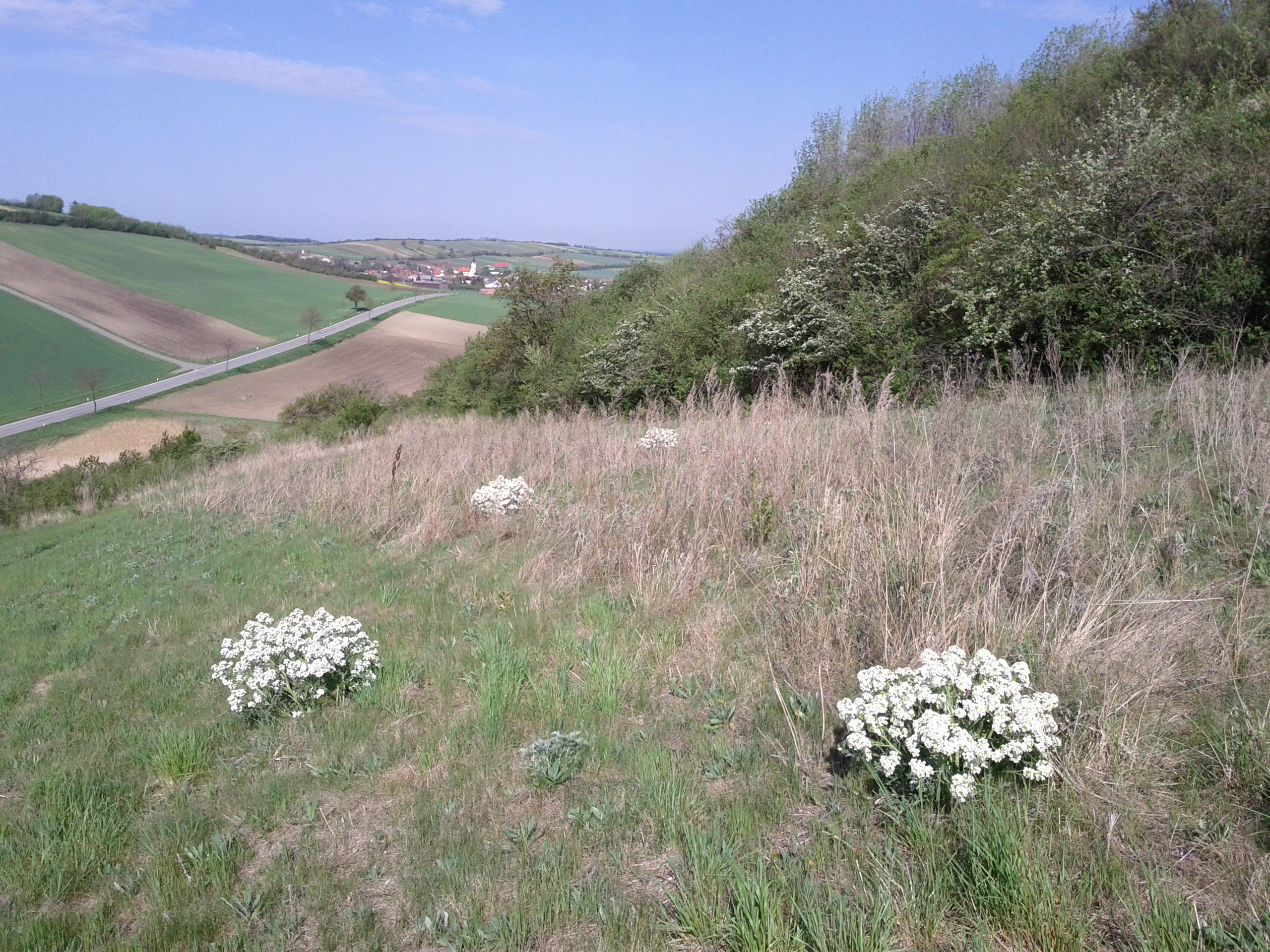 Habitat Taxonym: Crambe tataria ss Fischer et al. EfÖLS 2008 ISBN 978-3-85474-187-9 Location: Nature reserve Zeiserlberg near Ottenthal, district Mistelbach, Lower Austria - ca. 225 m a.s.l. Habitat: dry grassland on Loess